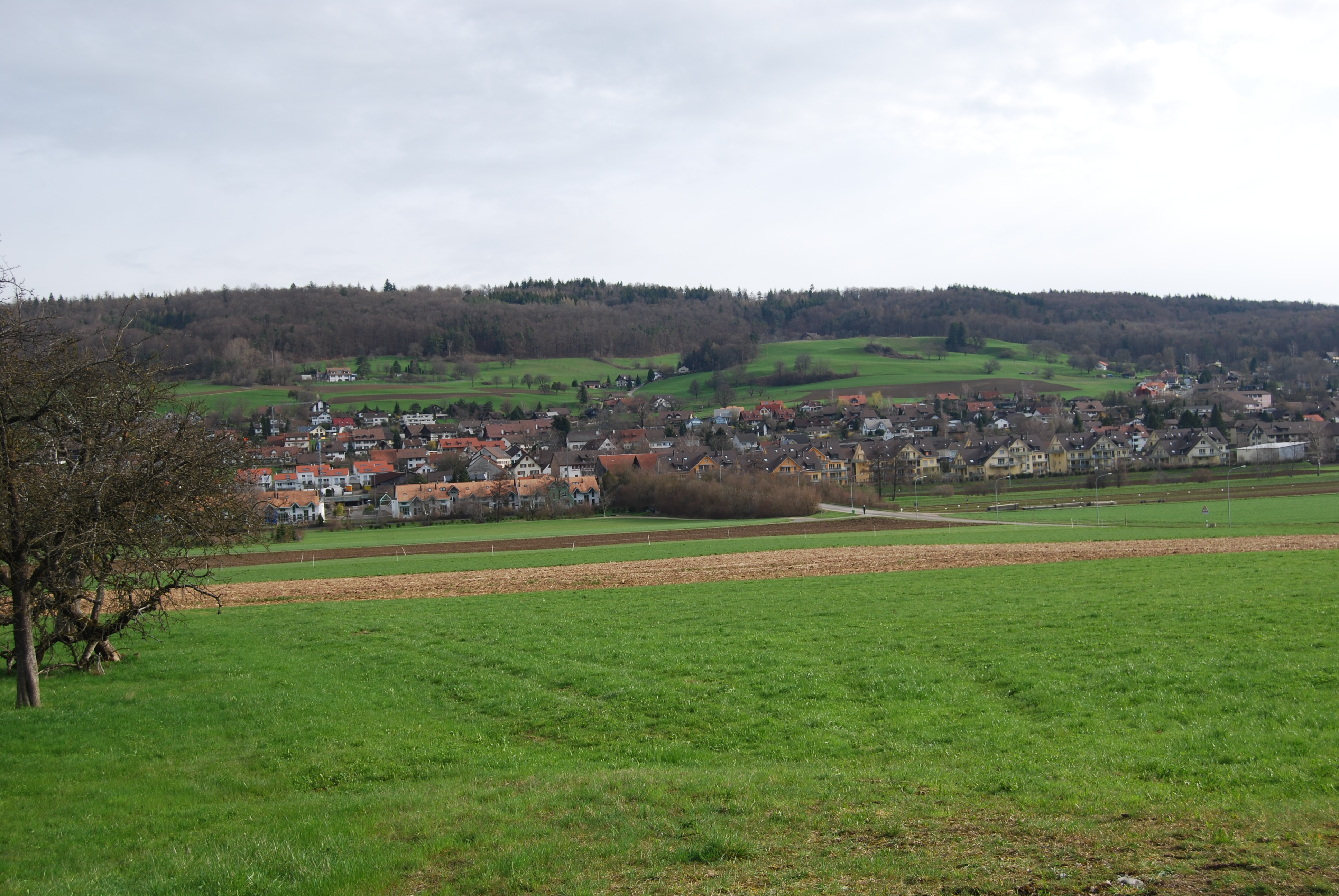 Oberweningen, canton of Zürich, SwitzerlandEsperanto: Oberweningen, Kantono Zuriko, Svislando